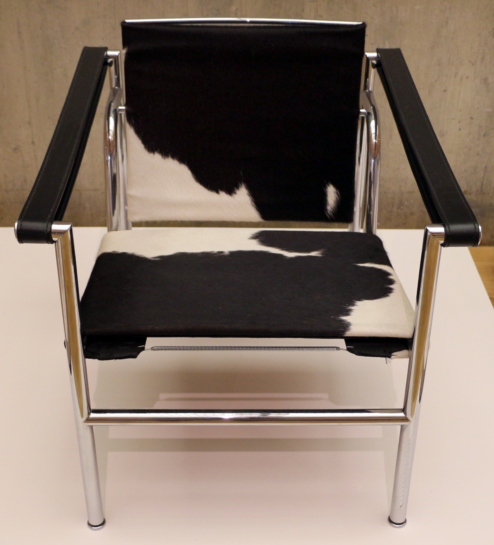 Furniture in the Calouste Gulbenkian Museum